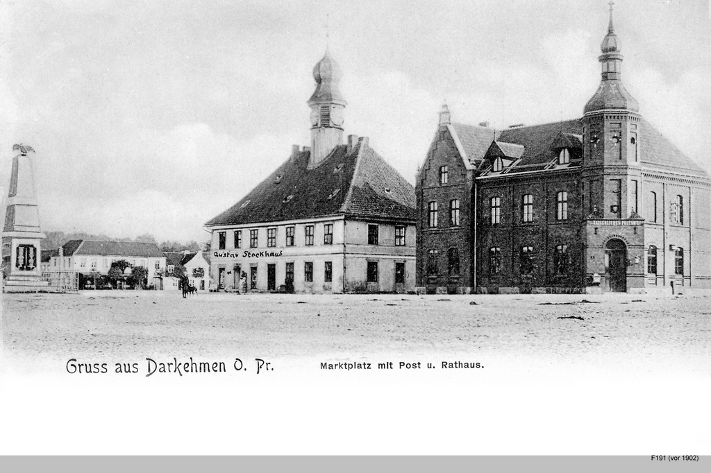 Ozyorsk (market square with town hall and post office). Darkehmen